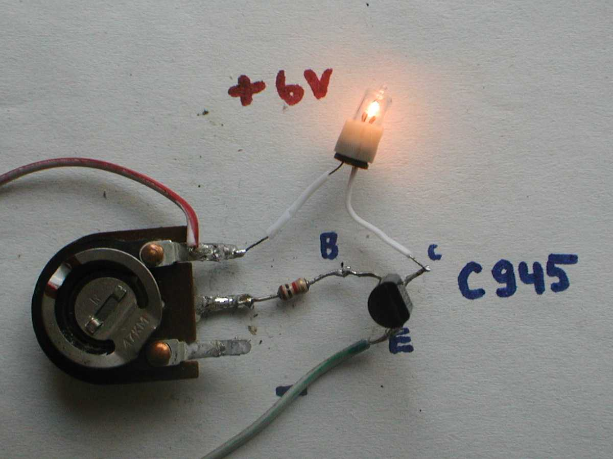 Photograph of a simple circuit using BJT as a current amplifier. Base current is lower than on transistor_amp_circuit_photo_1.jpg, but the collector current is still limited only by the bulb.